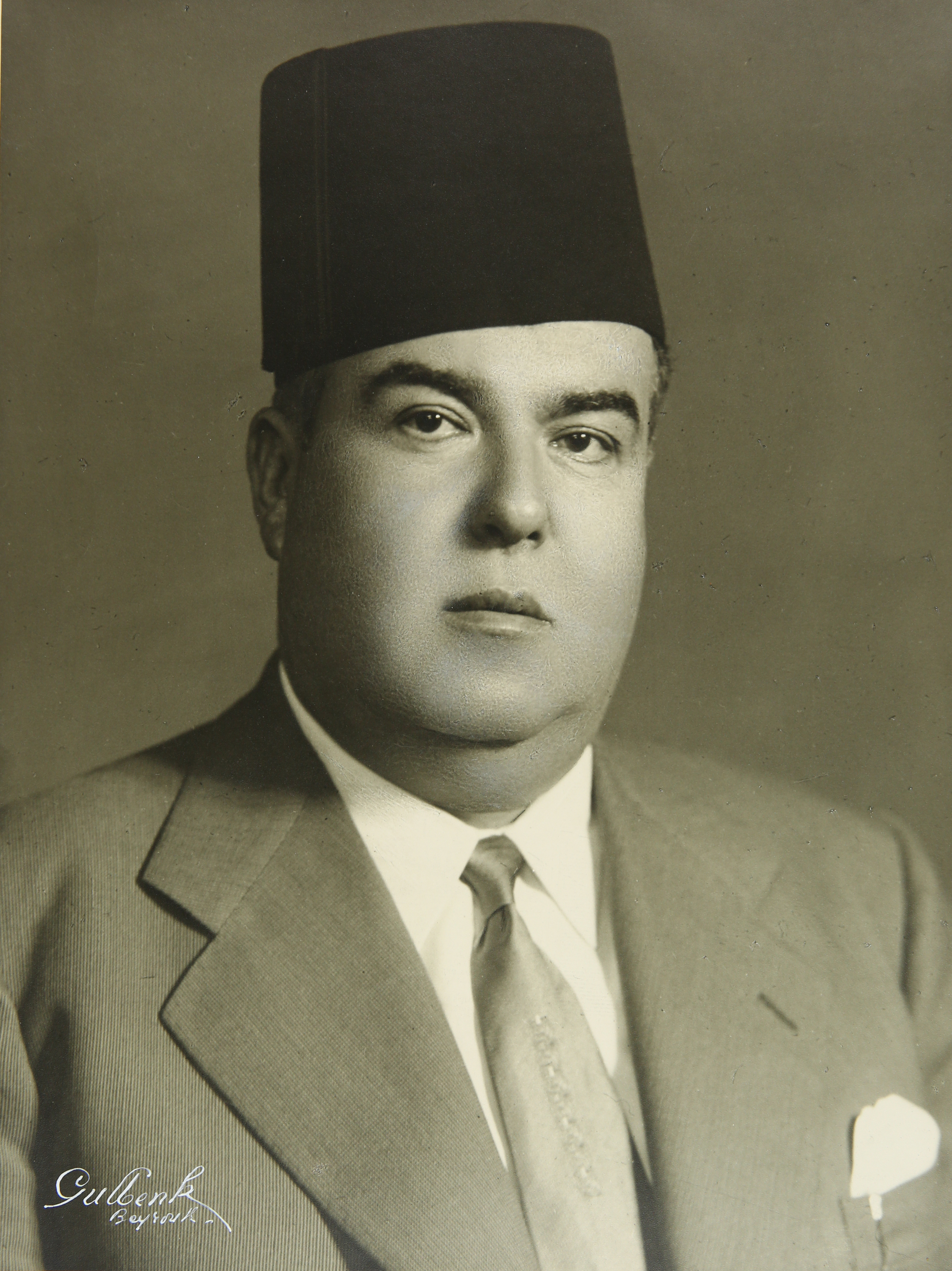 Boutros el-Khoury public photo